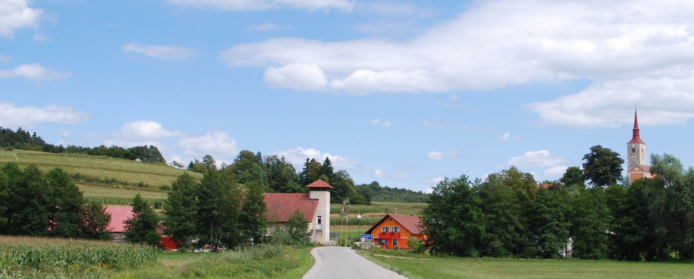 Panoramic view of Hrastovica from the west.